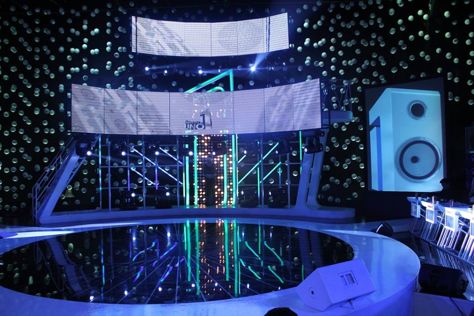 Stage of "El Numero Uno" produced by Telecorporación Salvadoreña